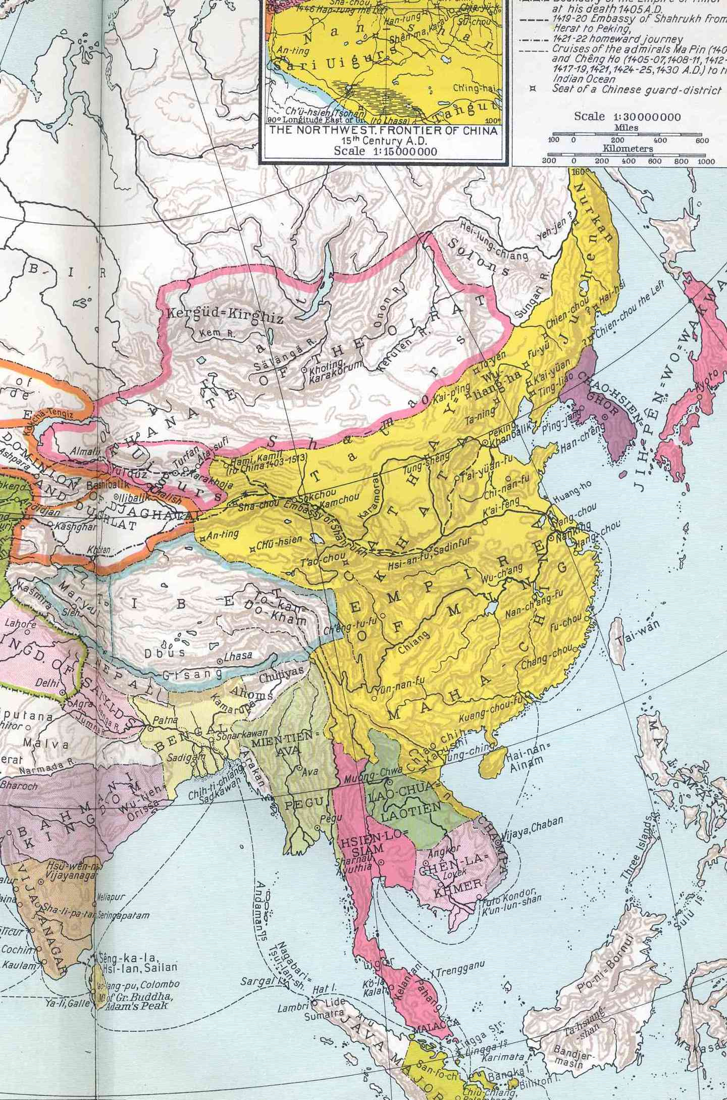 The Ming Empire (in yellow) under the Yongle Emperor, in the year 1415